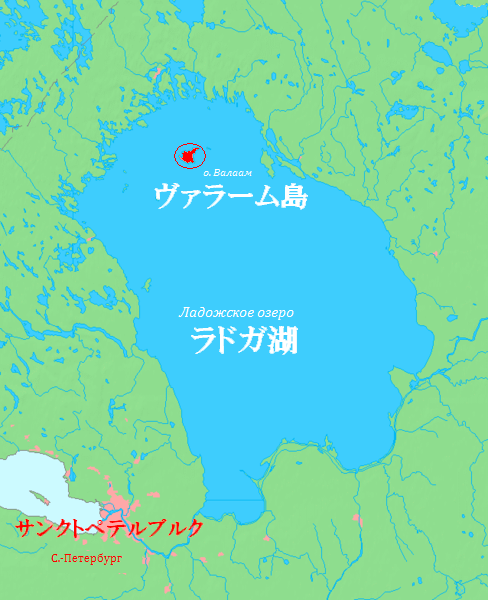 Valaam